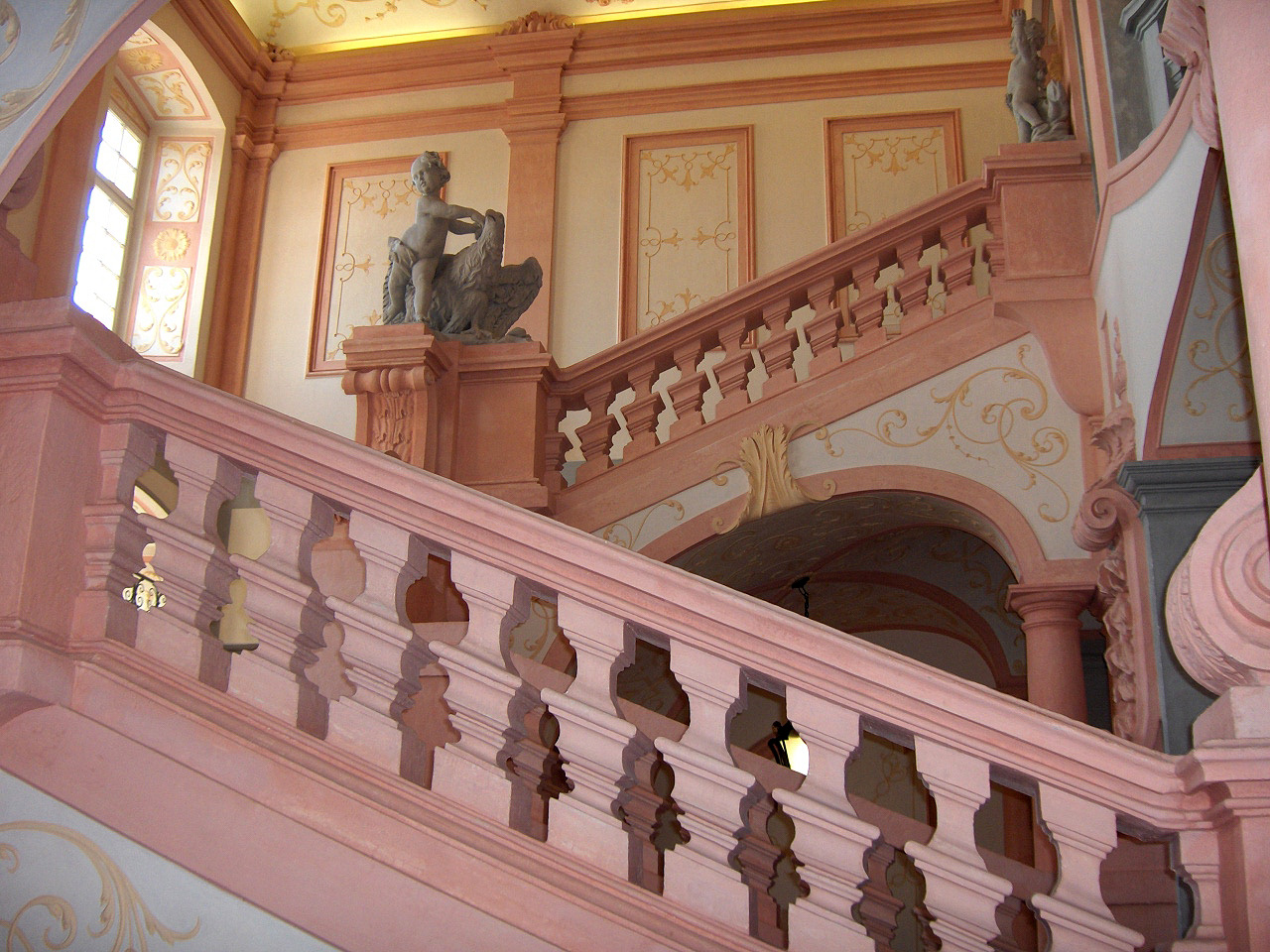 Imperial staircase leading into the Melk Abbey, Austria